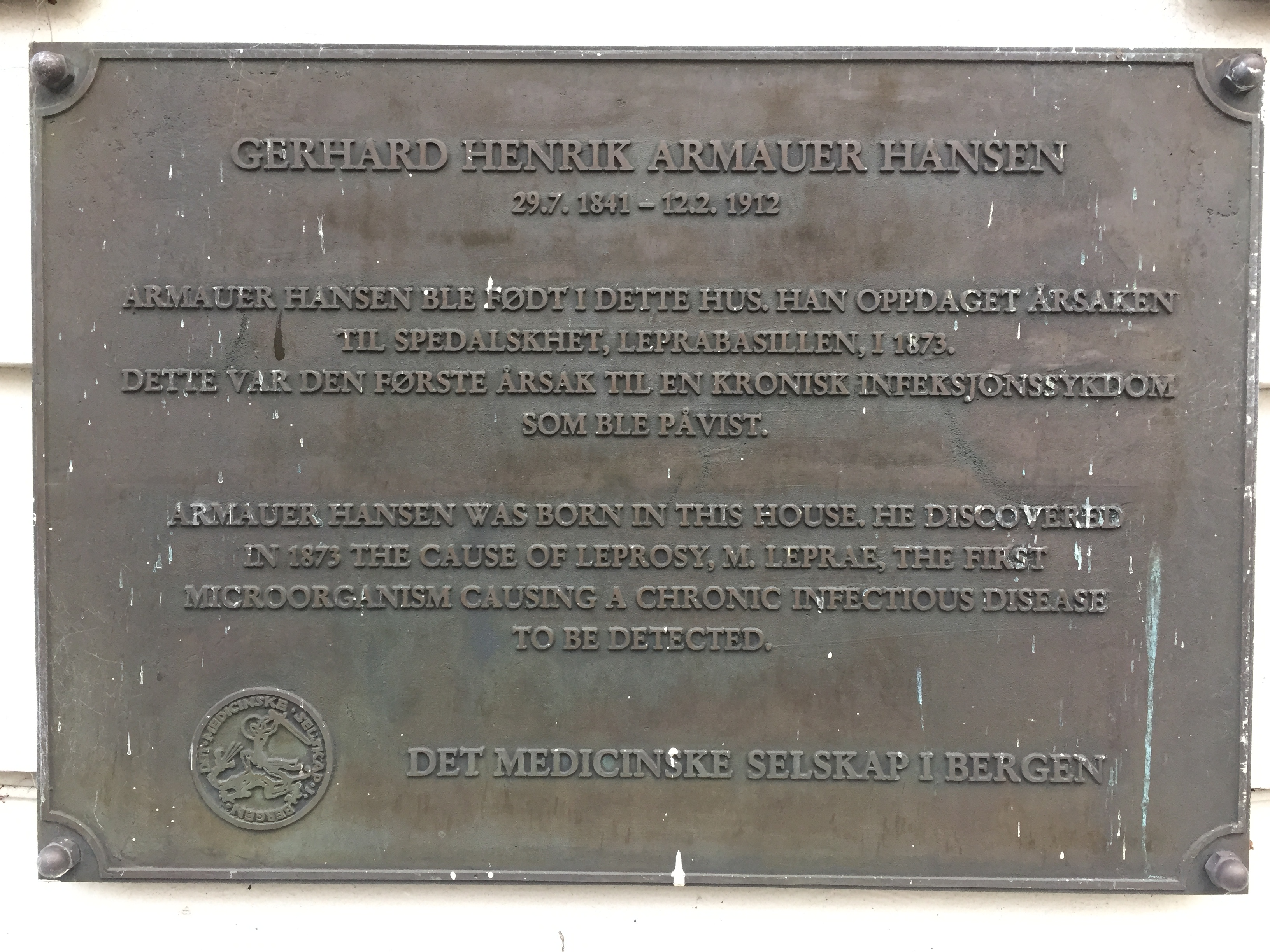 Armauer Hansen Memorial Plaque at his birth house in Kroken 5, Bergen, Norway